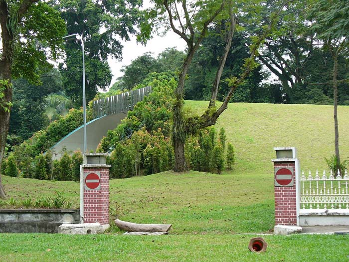 The former site of the Old National Library Building at Stamford Road, Singapore